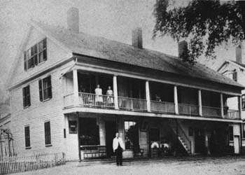 File photo of Jenckes Store - East Douglas